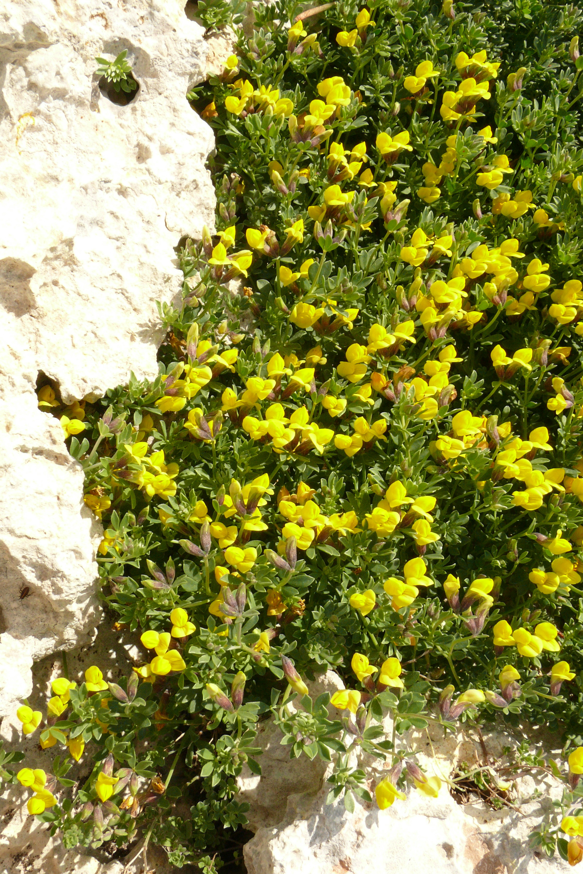 Lotus cytisoides